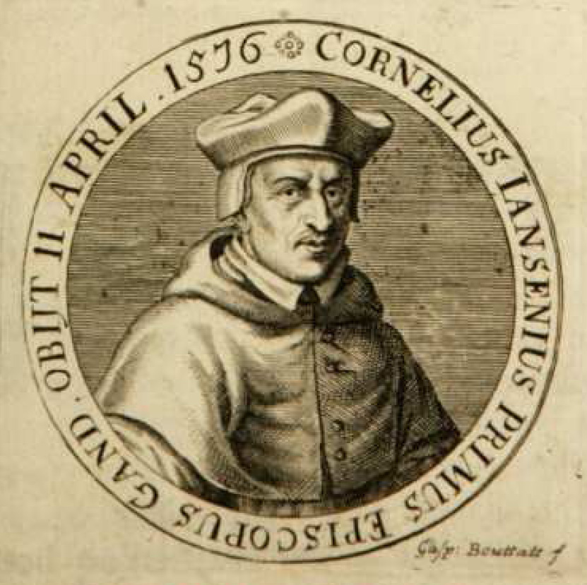 Cornelius Jansenius, first bishop of Gent